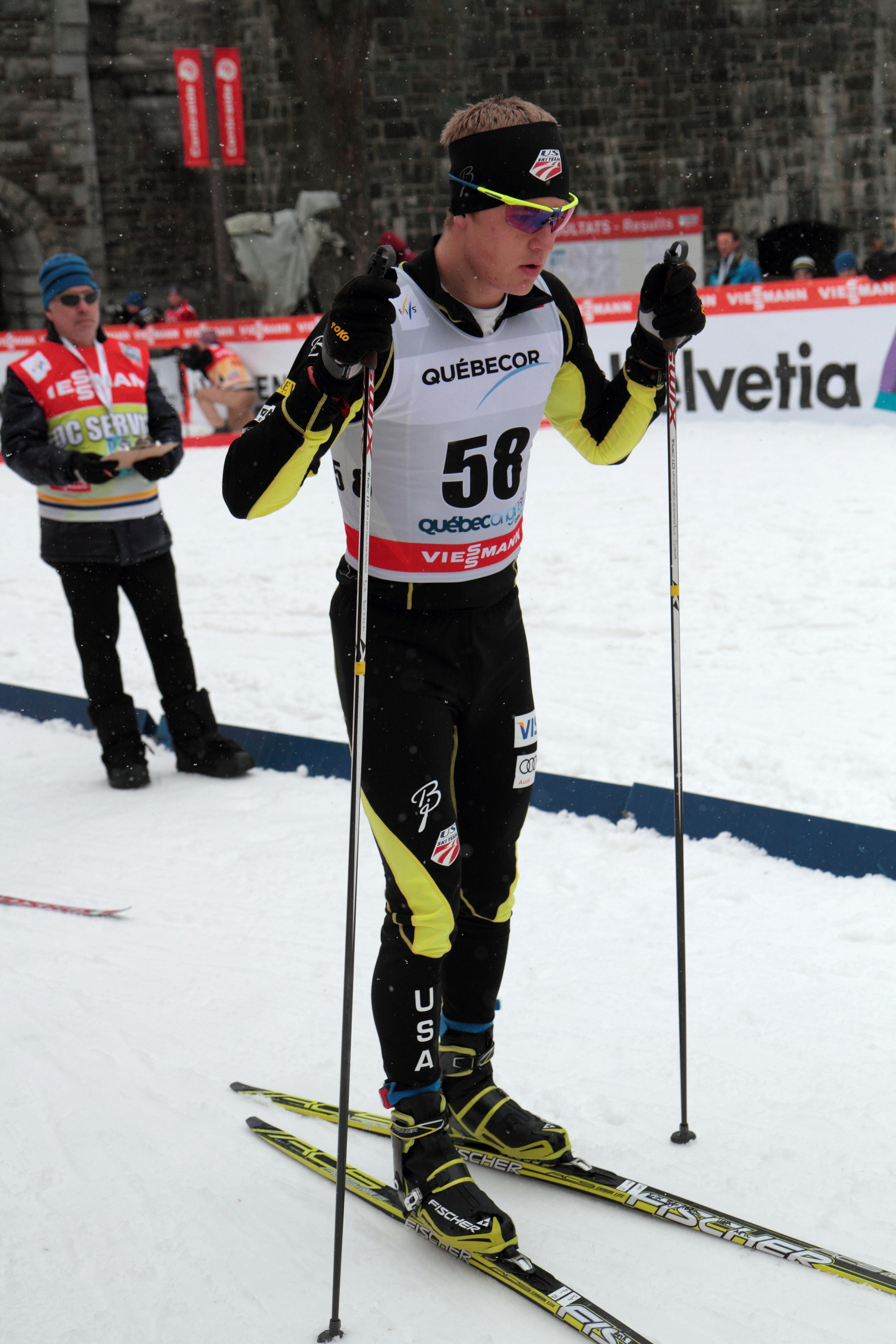 Erik Bjornsen, FIS Cross-Country World Cup 2012, Quebec, Canada.